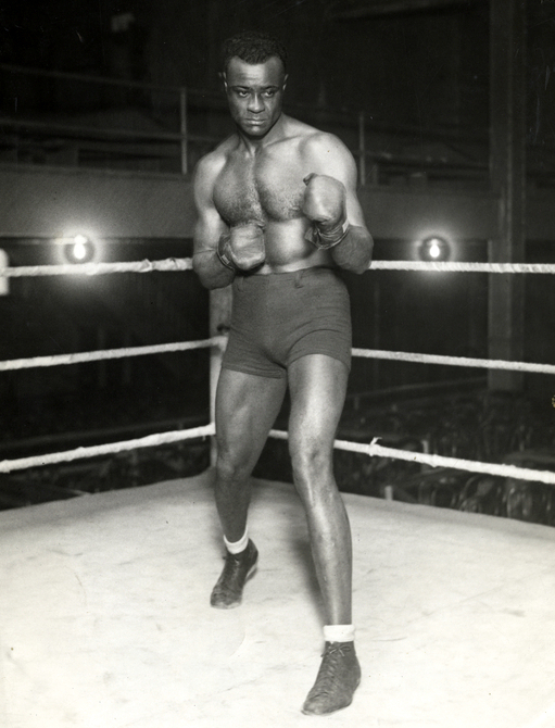 Getting near Dempsey! Harry Wills, who will meet Clem Johnson at Madison Square Garden, New York City, on Friday, Sept. 29th.